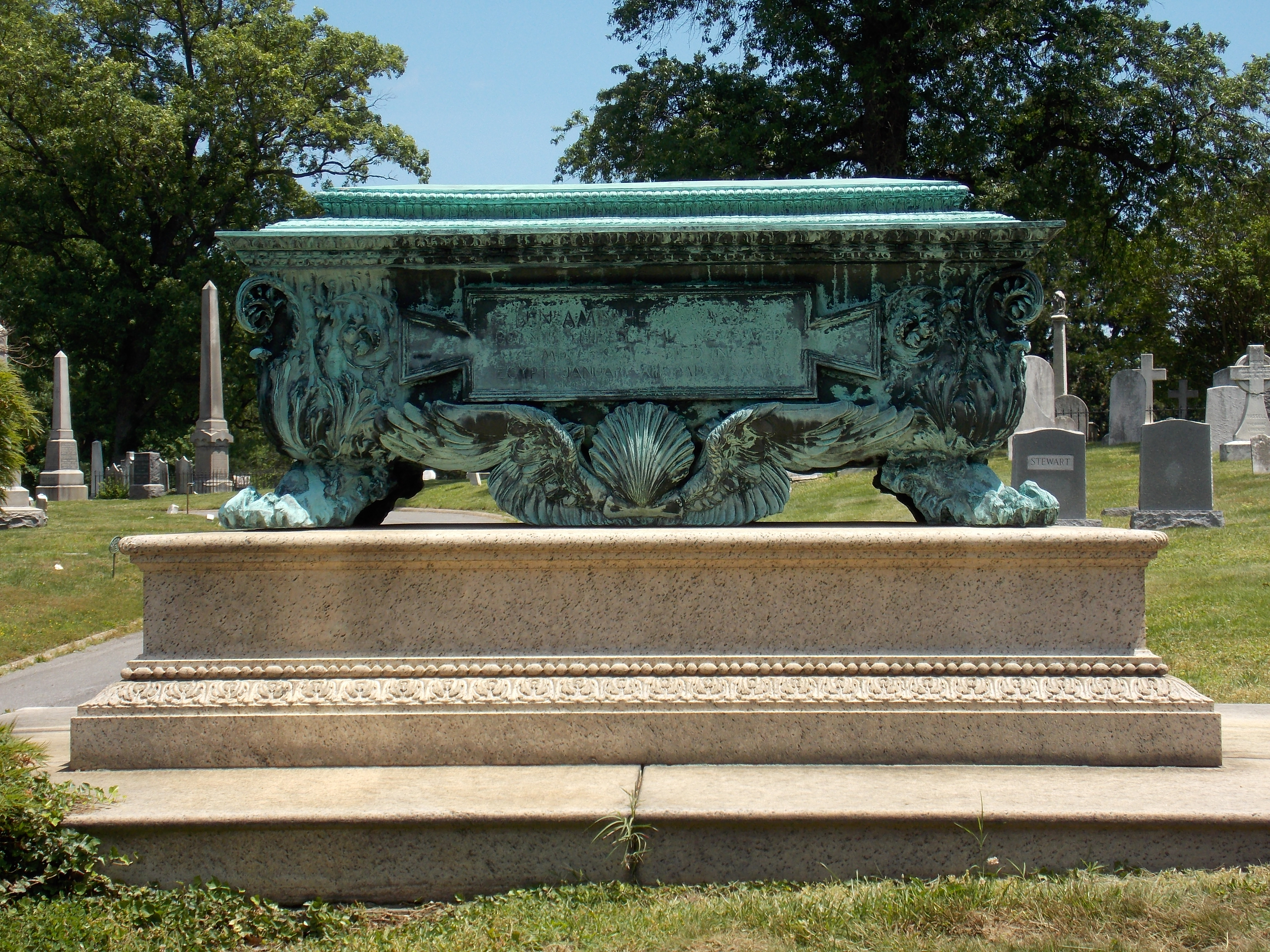 Benjamin Head Warder memorial in Rock Creek Cemetery in Washington, D.C.